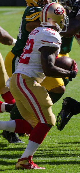 San Francisco 49ers vs. Green Bay Packers at Lambeau Field on September 9, 2012. Photo by Mike Morbeck.